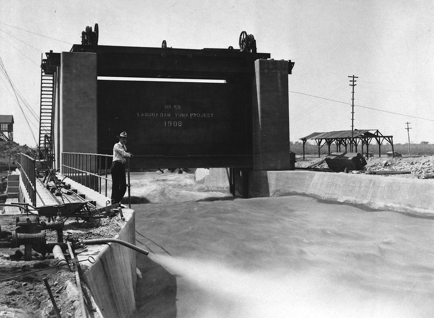 Sluice gate opening on the Arizona side of the Laguna Dam.